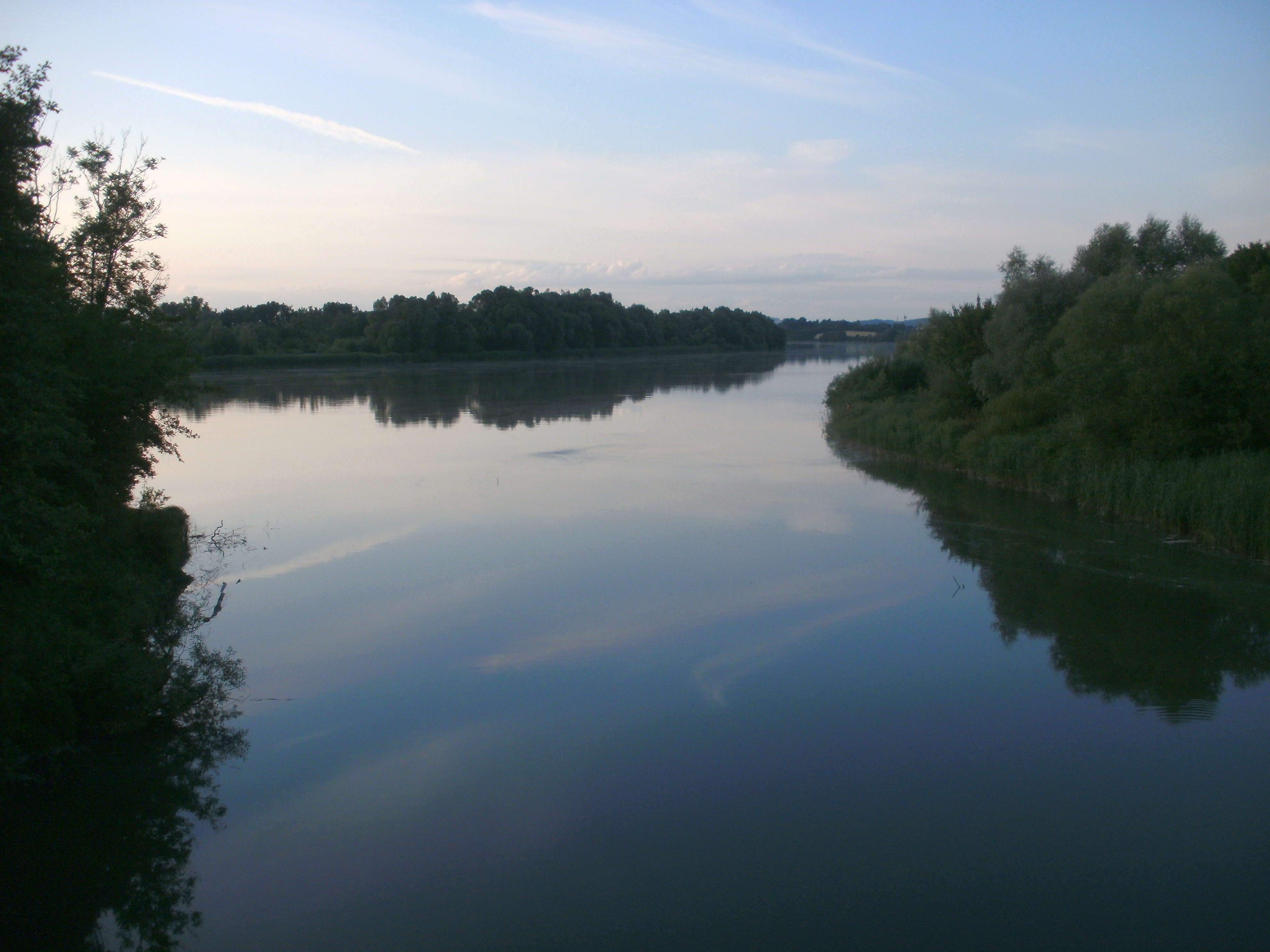 Mouth of the River Antiesen at Bodenhofen, where the Antiesen flows into the Inn River